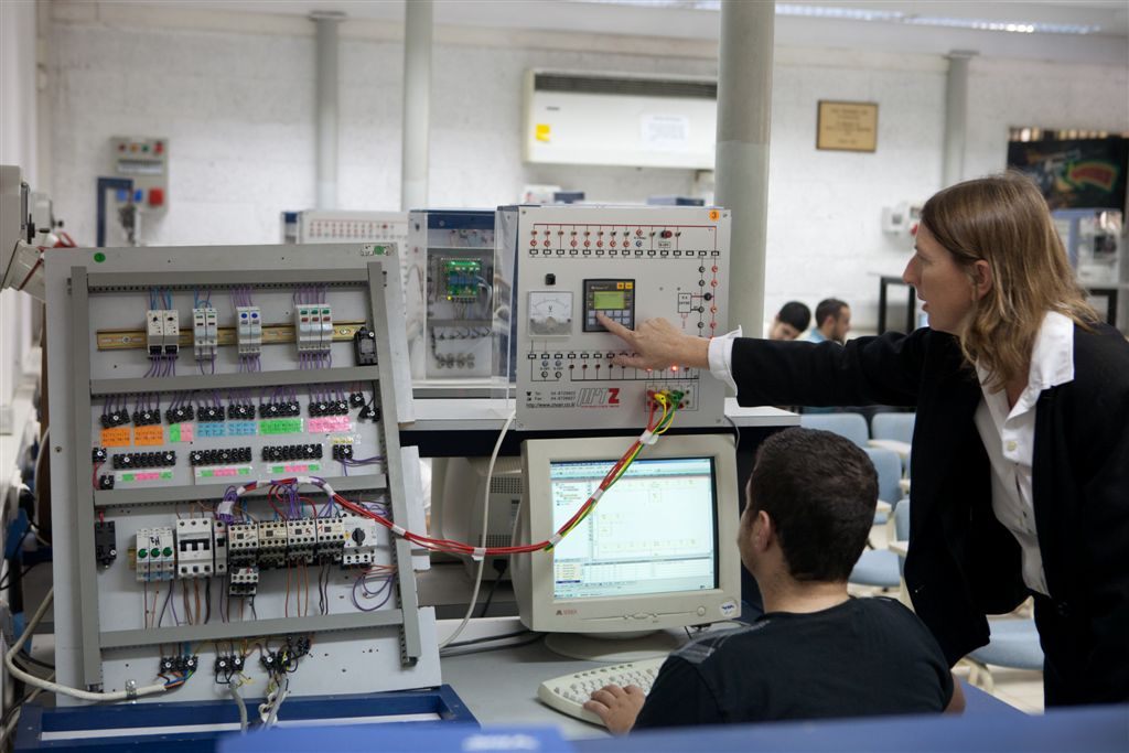 Electric_Lab_syngalowsky_college.jpg